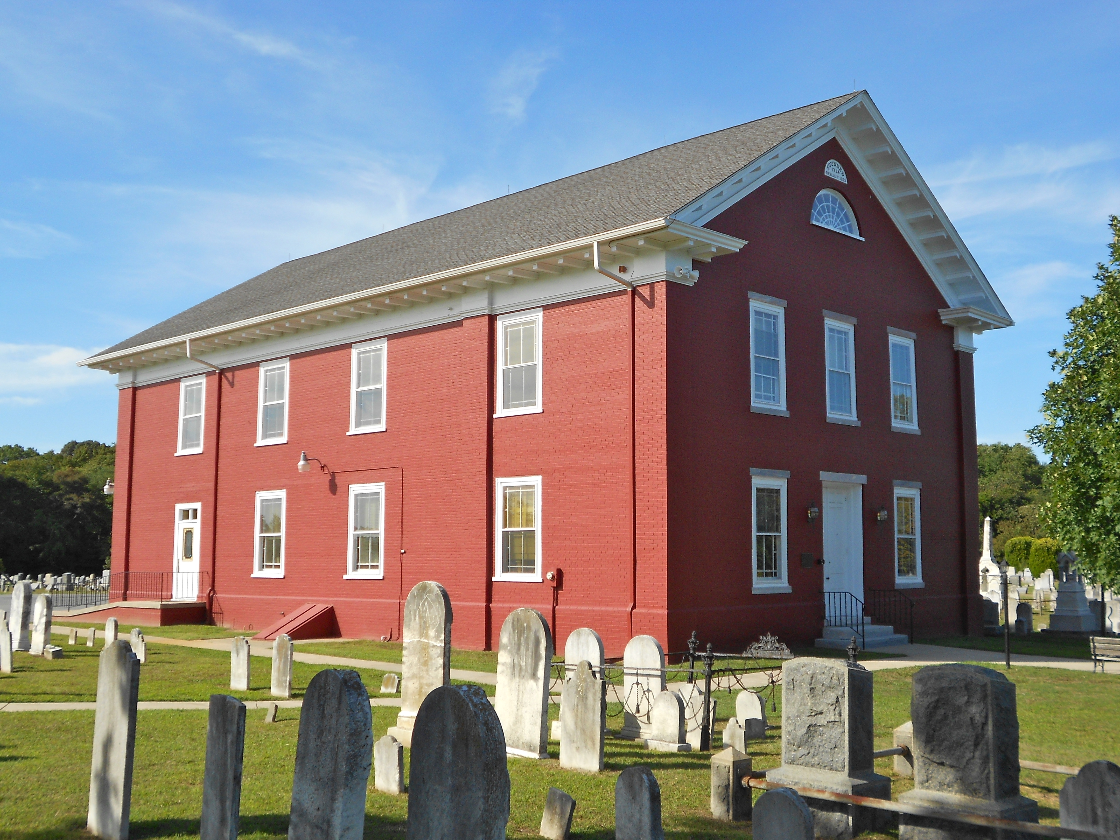 Cold Spring Presbyterian Church exterior of Presbyterian Church in Cape May County, New Jersey